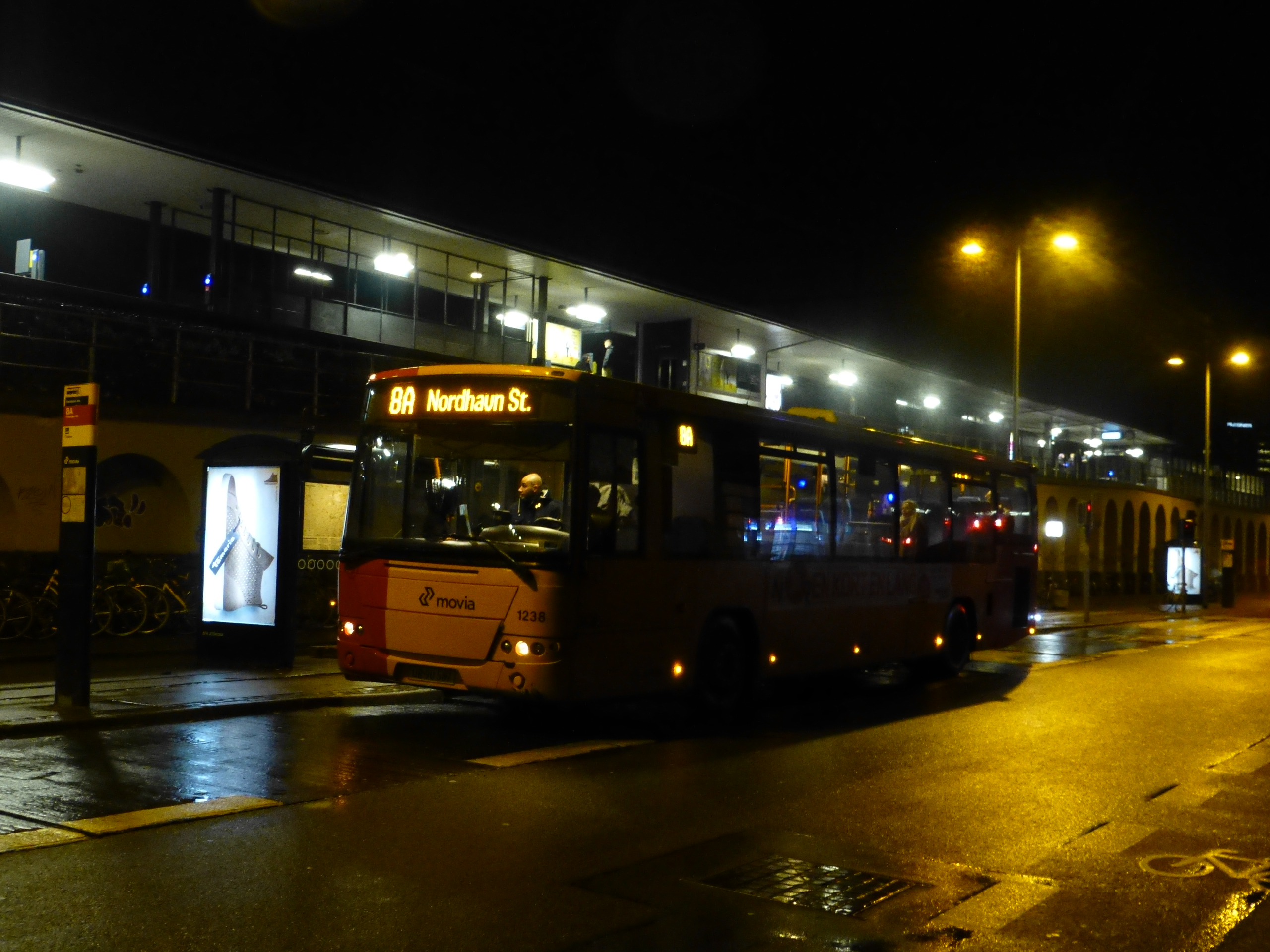 The first official Movia bus line 8A from Friheden Station has arrived at Nordhavn Station in Østerbro in Copenhagen.